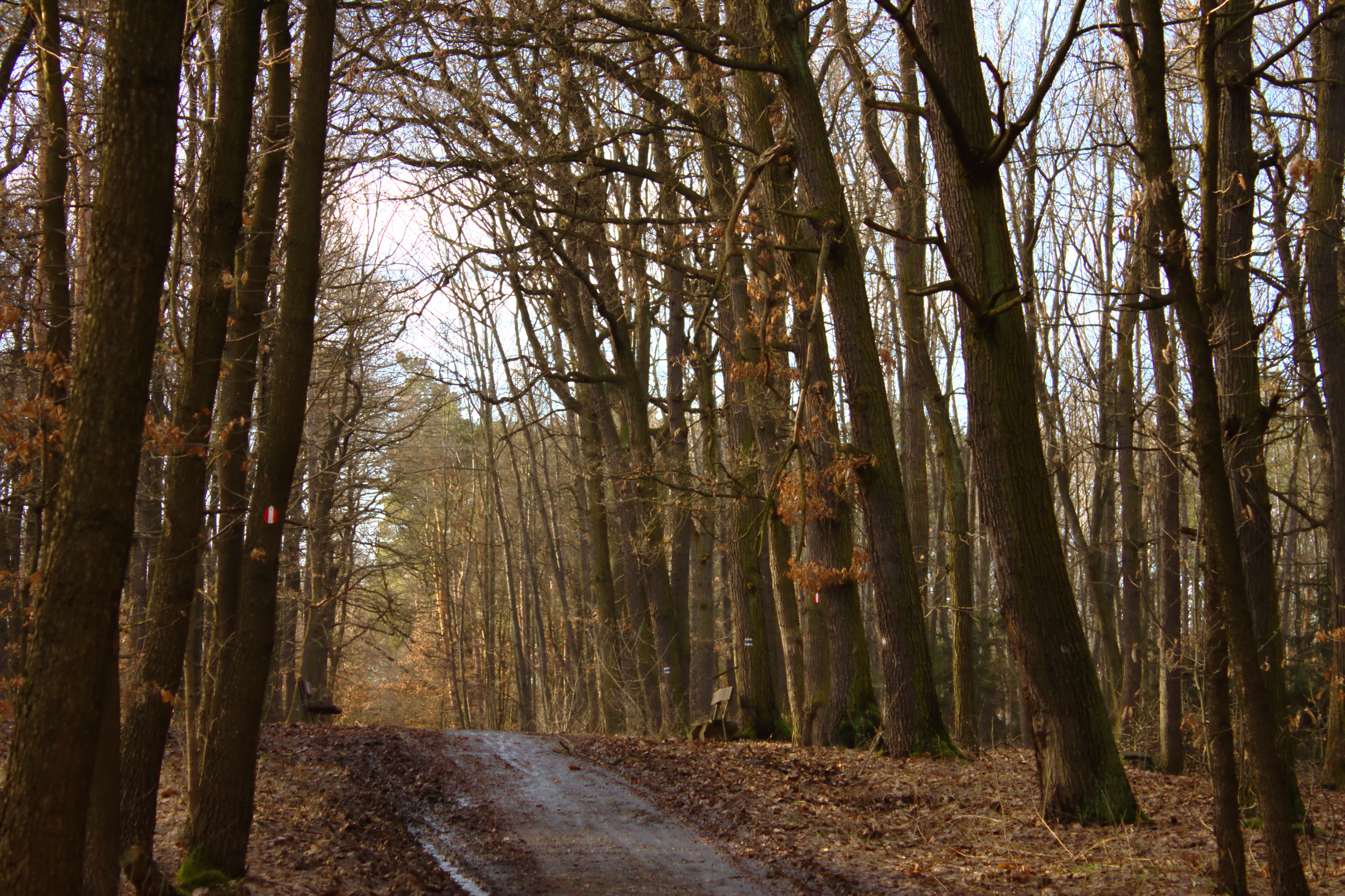 Xaverovský háj forest in winter, Prague, CZ